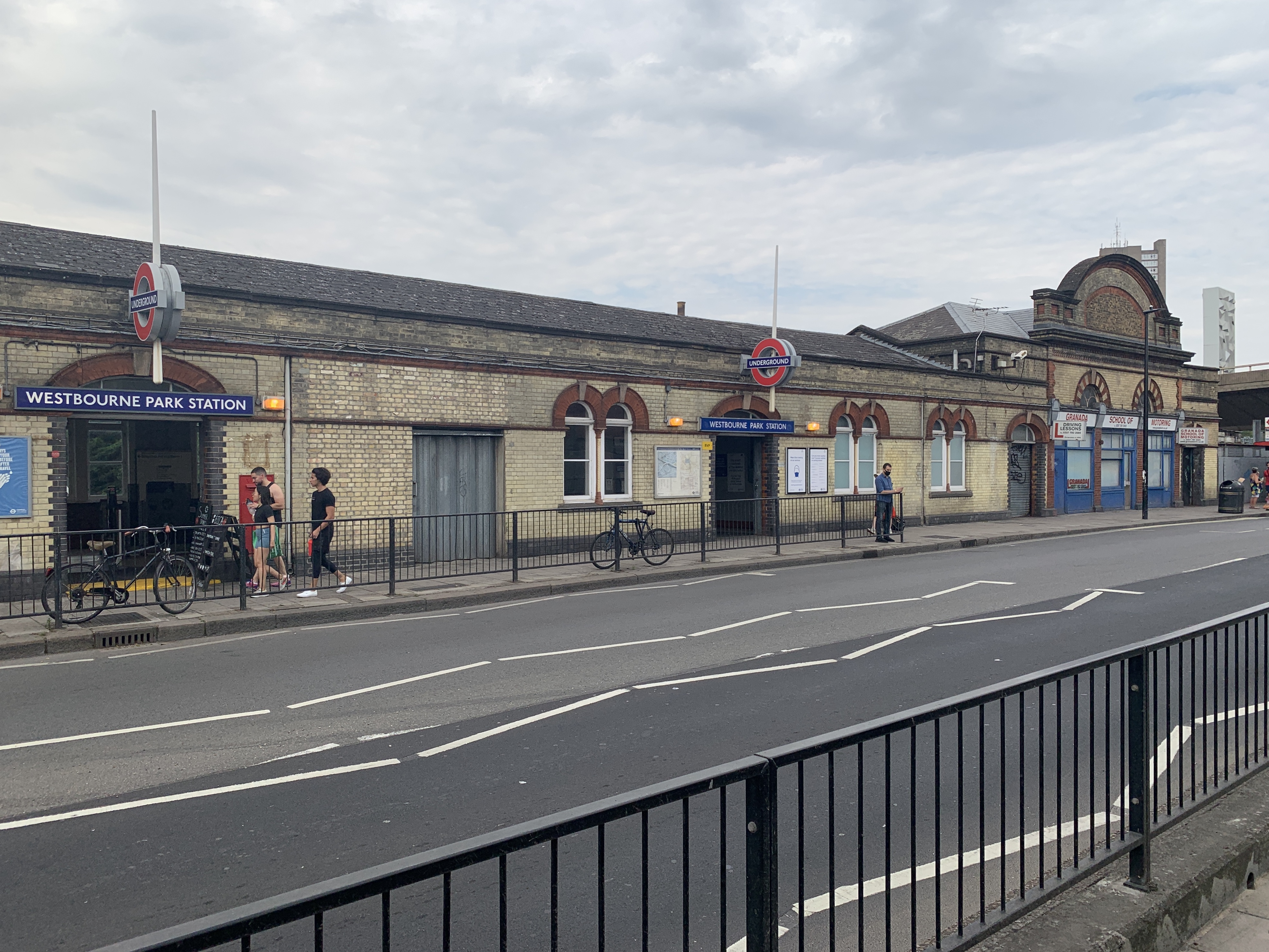 Station building of Westbourne Park tube station. Taken during my Circle Line Tube Walk.